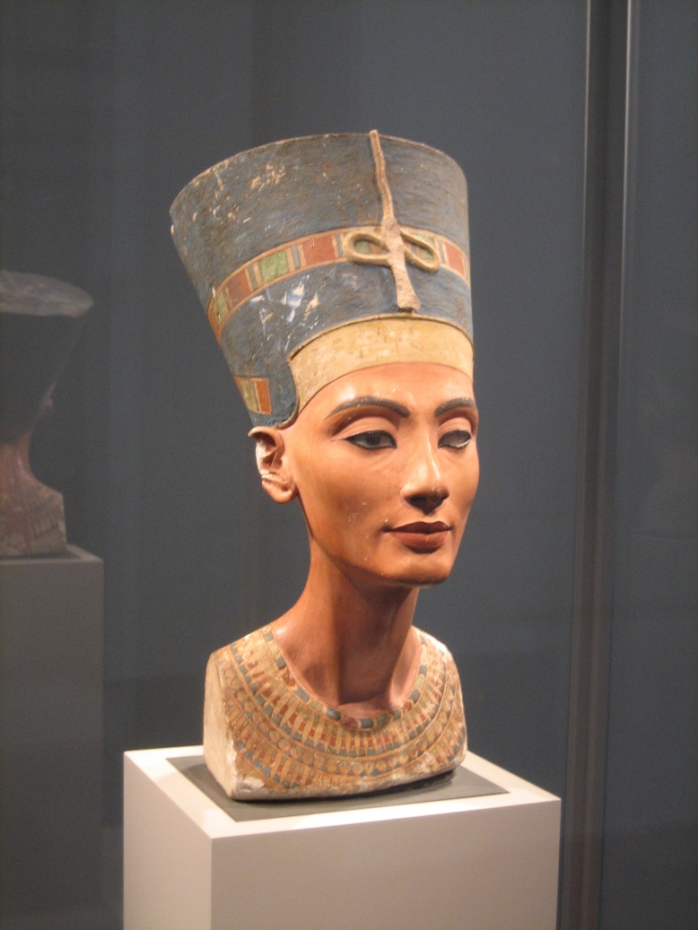 Bust of Nefertiti, Berlin Museum